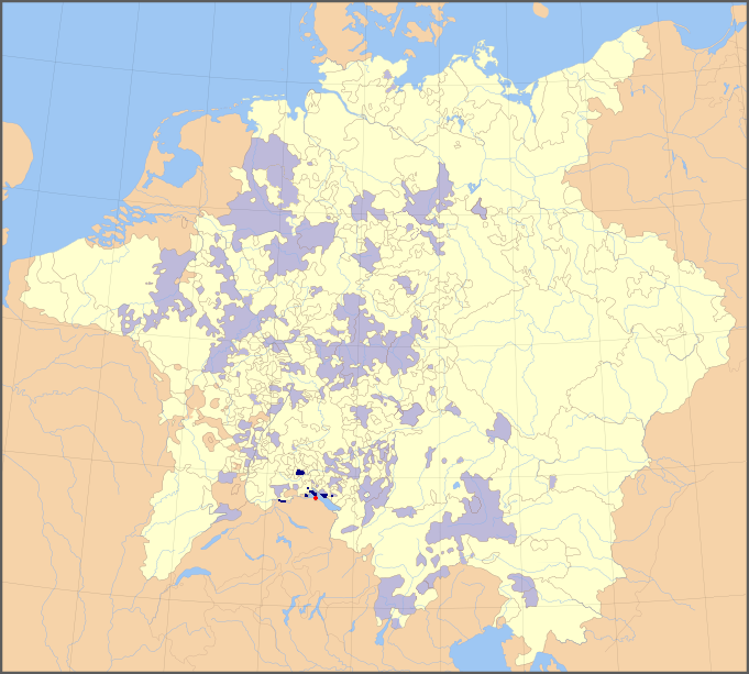 Map of the Holy Roman Empire, 1648, with the territories belonging to the prince-bishop of Constance highlighted